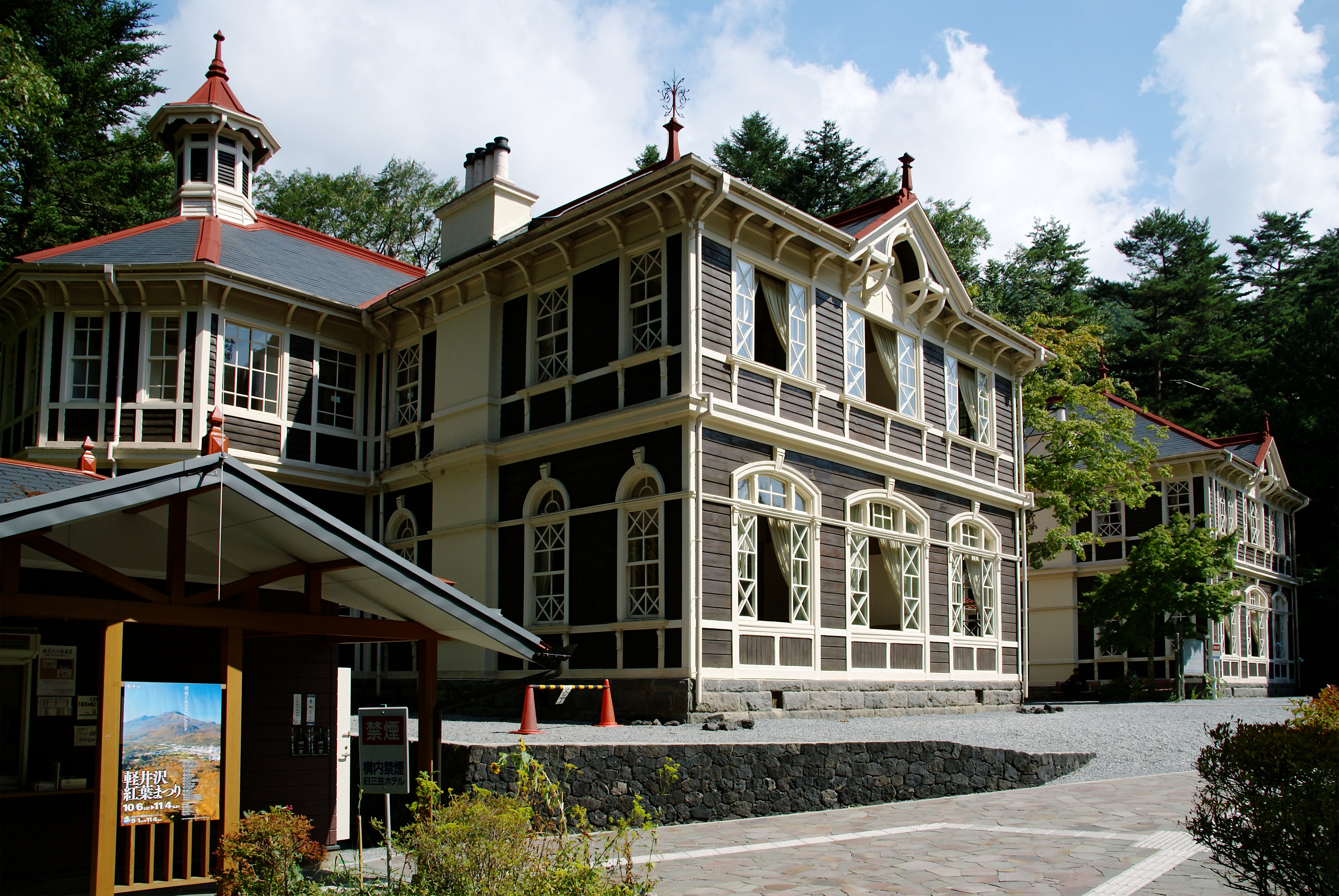 Old Mikasa Hotel in Karuizawa, Nagano prefecture, Japan